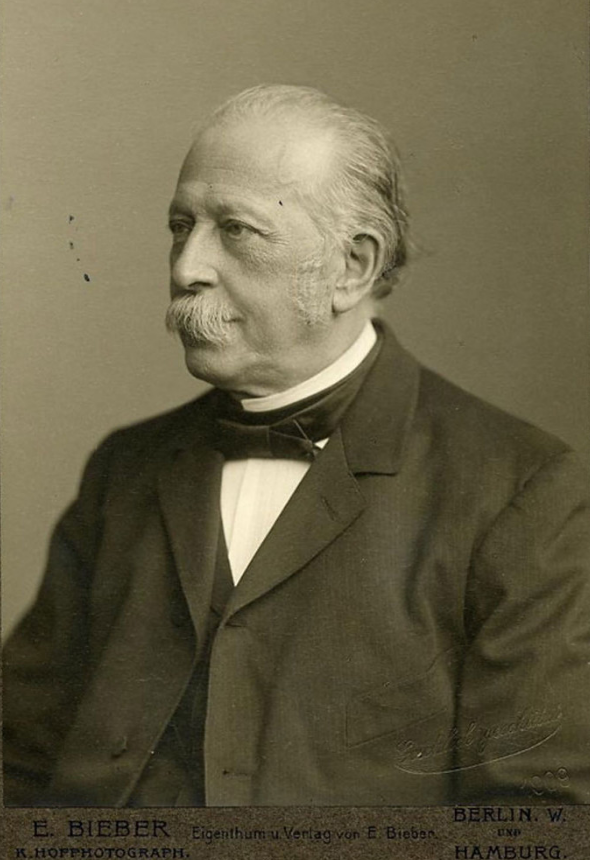 Theodor Fontane by E. Bieber, 1894